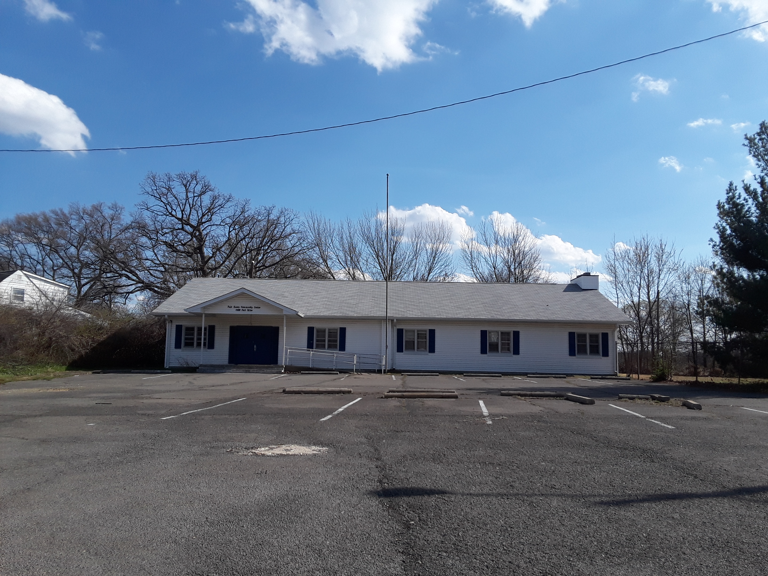 Site of Fort O'Rourke, one of the forts built to protect Washington, D.C. during the American Civil War